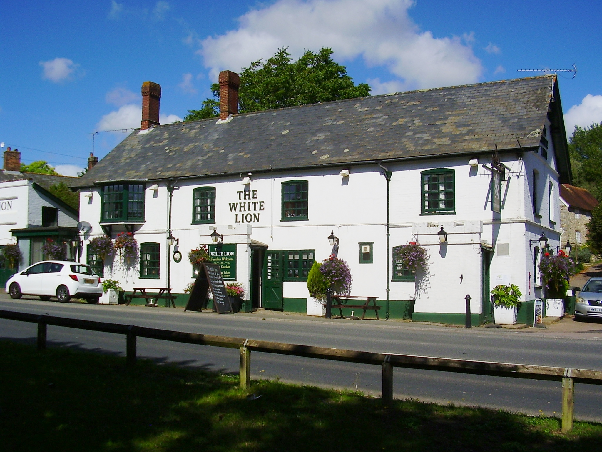 White Lion Inn, Arreton, Isle of Wight, UK.jpg